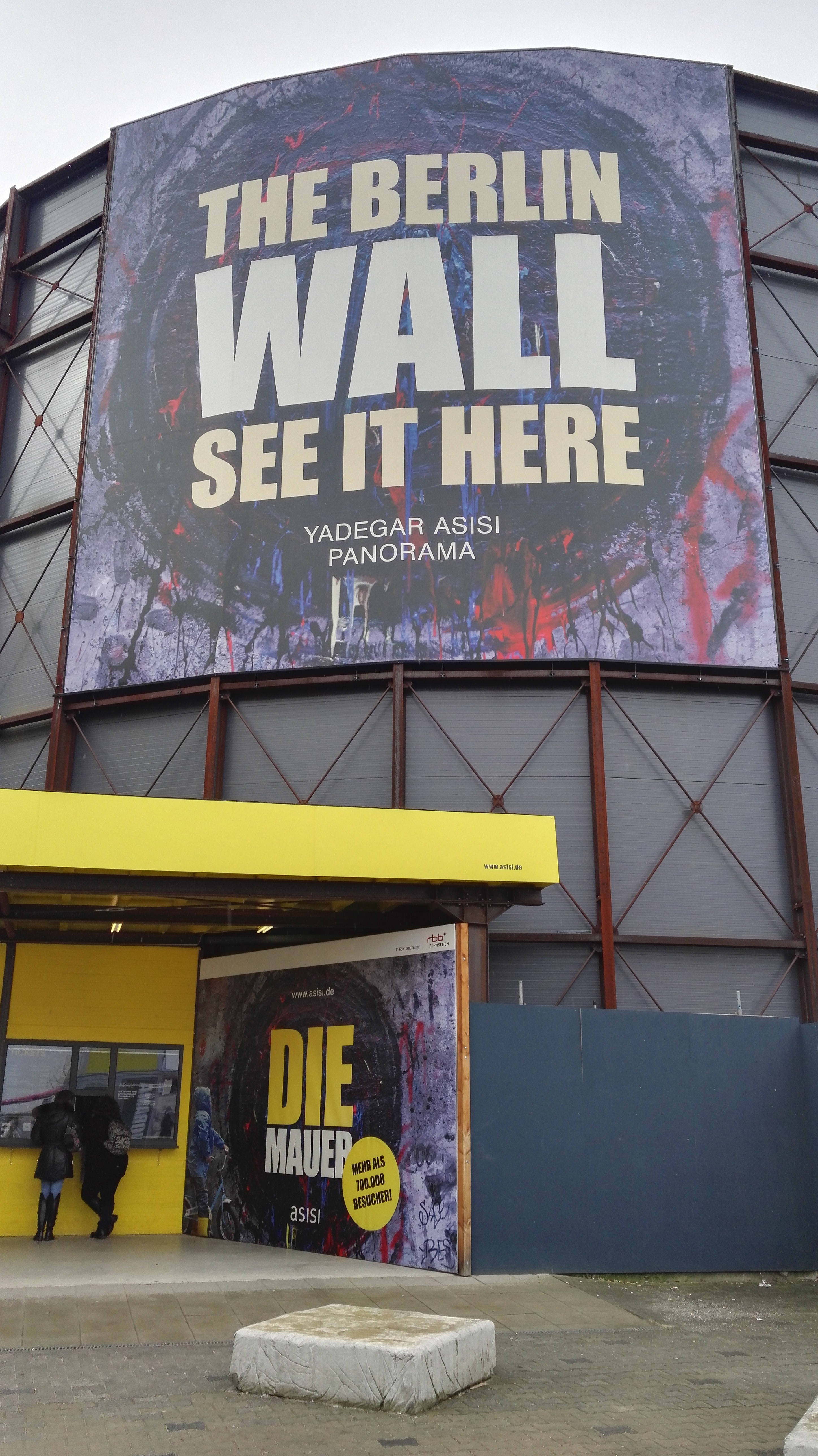 Outside of the building housing Yadegar Asisi's panorama "The Wall" (Berlin, near Checkpoint Charlie)